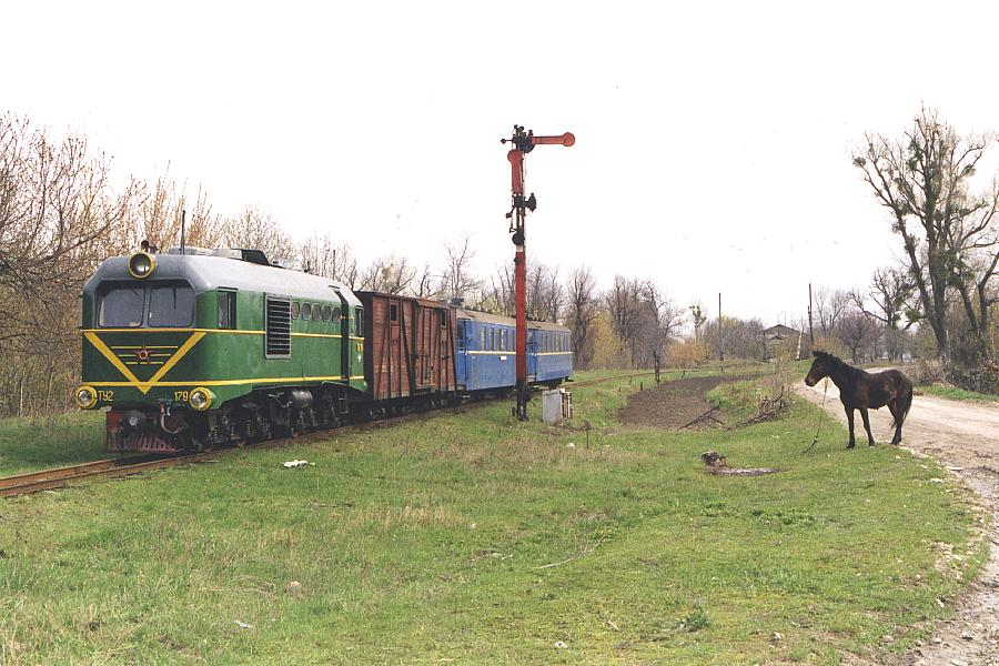 TU2-179 with train on Gaivoron narrow gauge railway in Rudnytsya.